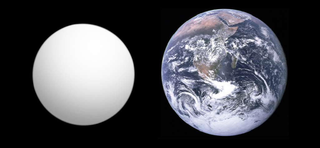 Size comparison of K2-72 e (white sphere) with Earth, based on current data.